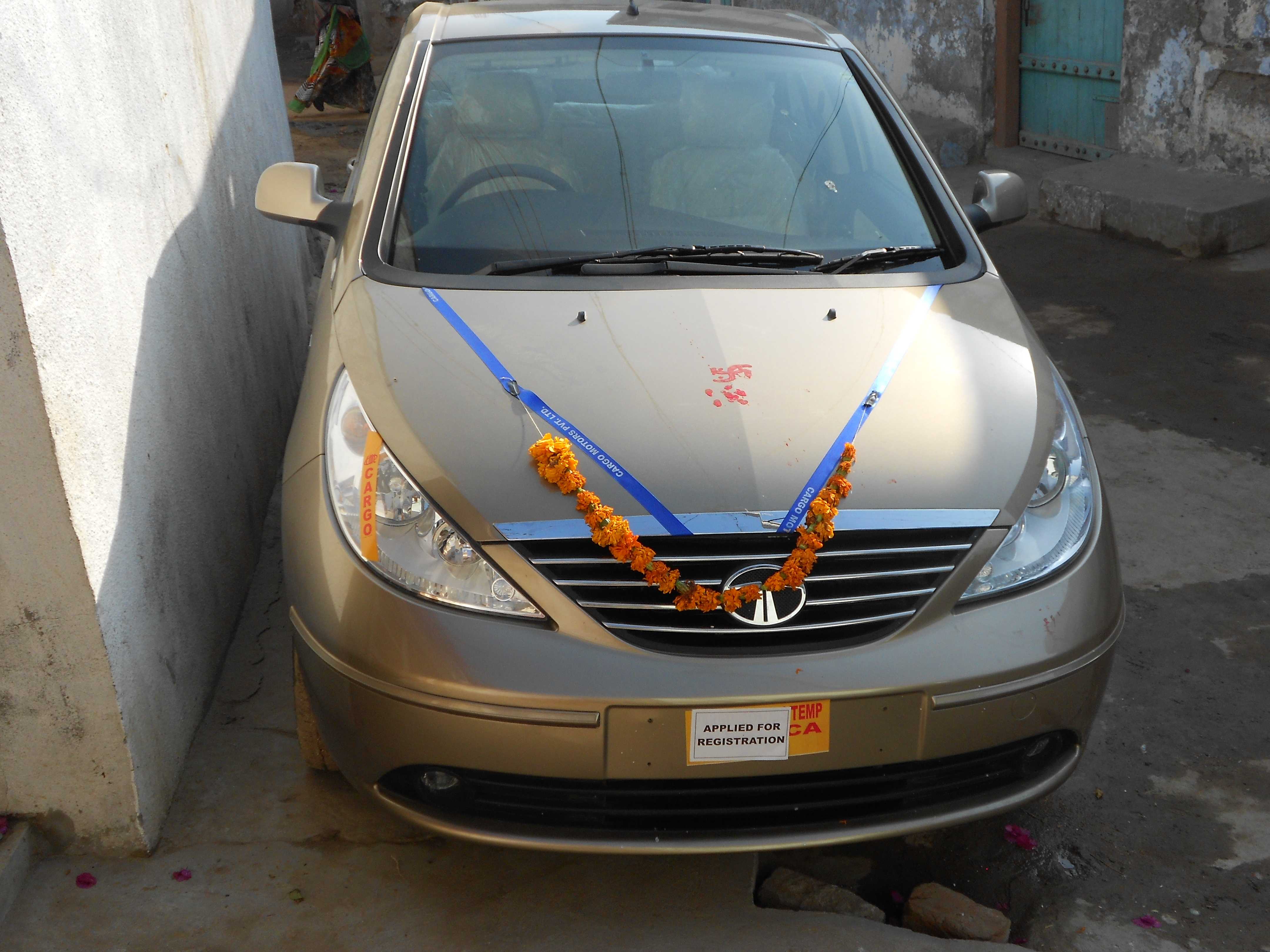 2012 Tata Manza Diesel (Front)